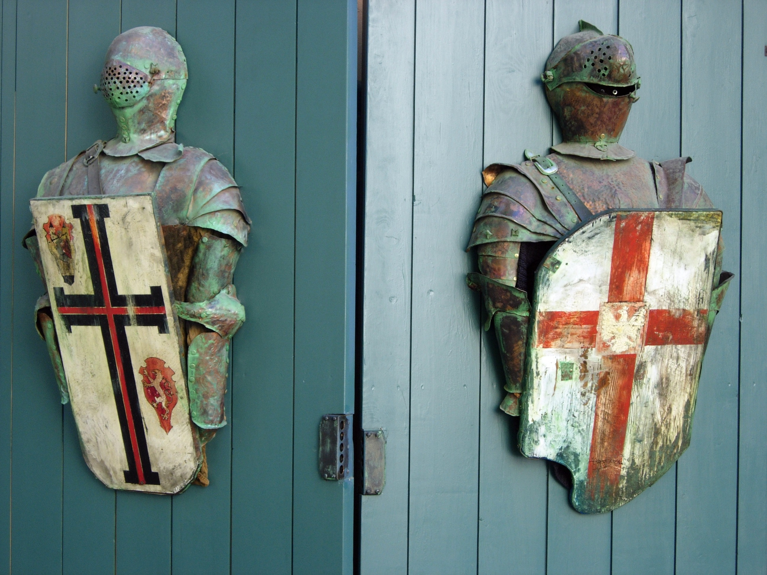 Souvenir shop decoration, Kohtu 3a, Tallinn